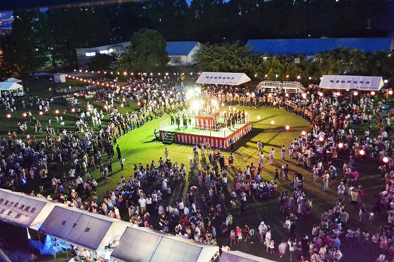 Title 京都桂駐屯地納涼夏祭り.jpg Album Events and Public Relations (イベント・行事・広報活動等) 京都桂駐屯地納涼夏祭り（桂）